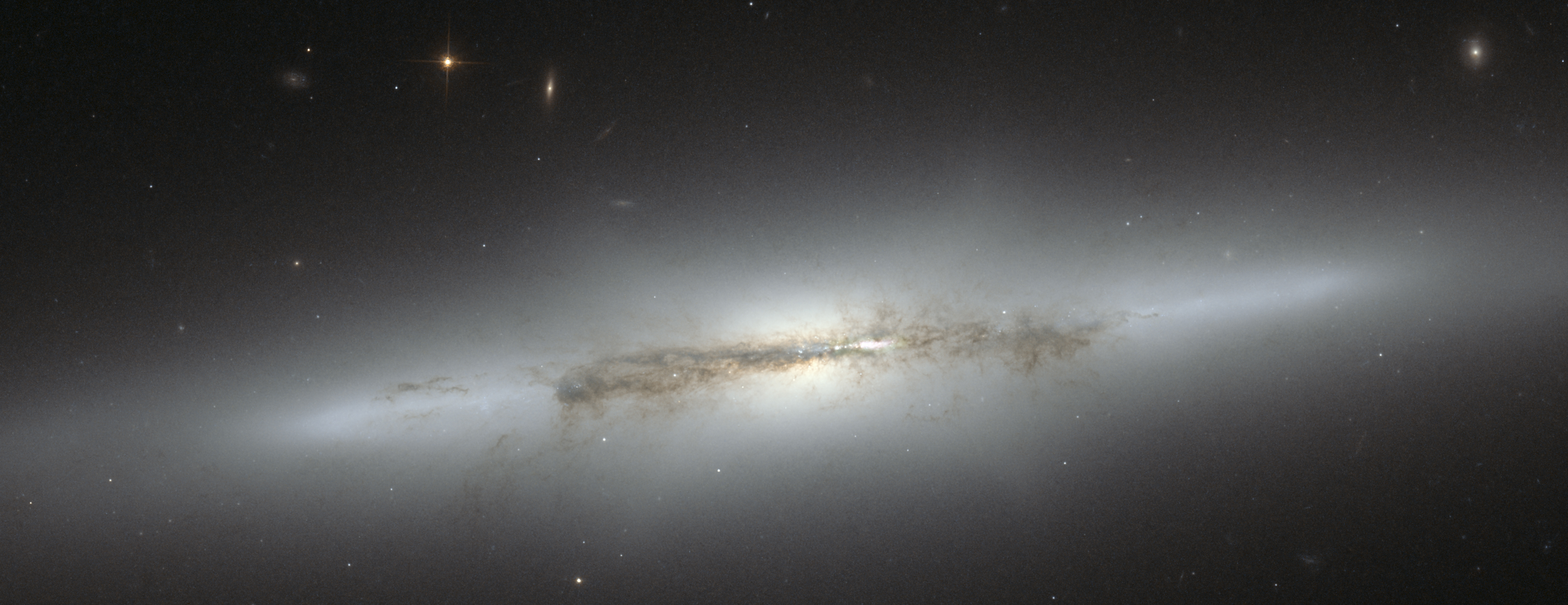 Still an astrophysical mystery, the evolution of the bulges in spiral galaxies led astronomers to the edge-on galaxy NGC 4710. When staring directly at the centre of the galaxy, one can detect a faint, ethereal X-shaped structure. Such a feature, which astronomers call a boxy or peanut-shaped bulge, is due to the vertical motions of the stars in the galaxy's bar and is only evident when the galaxy is seen edge-on. This curiously shaped puff is often observed in spiral galaxies with small bulges and open arms, but is less common in spirals with arms tightly wrapped around a more prominent bulge, such as NGC 4710.